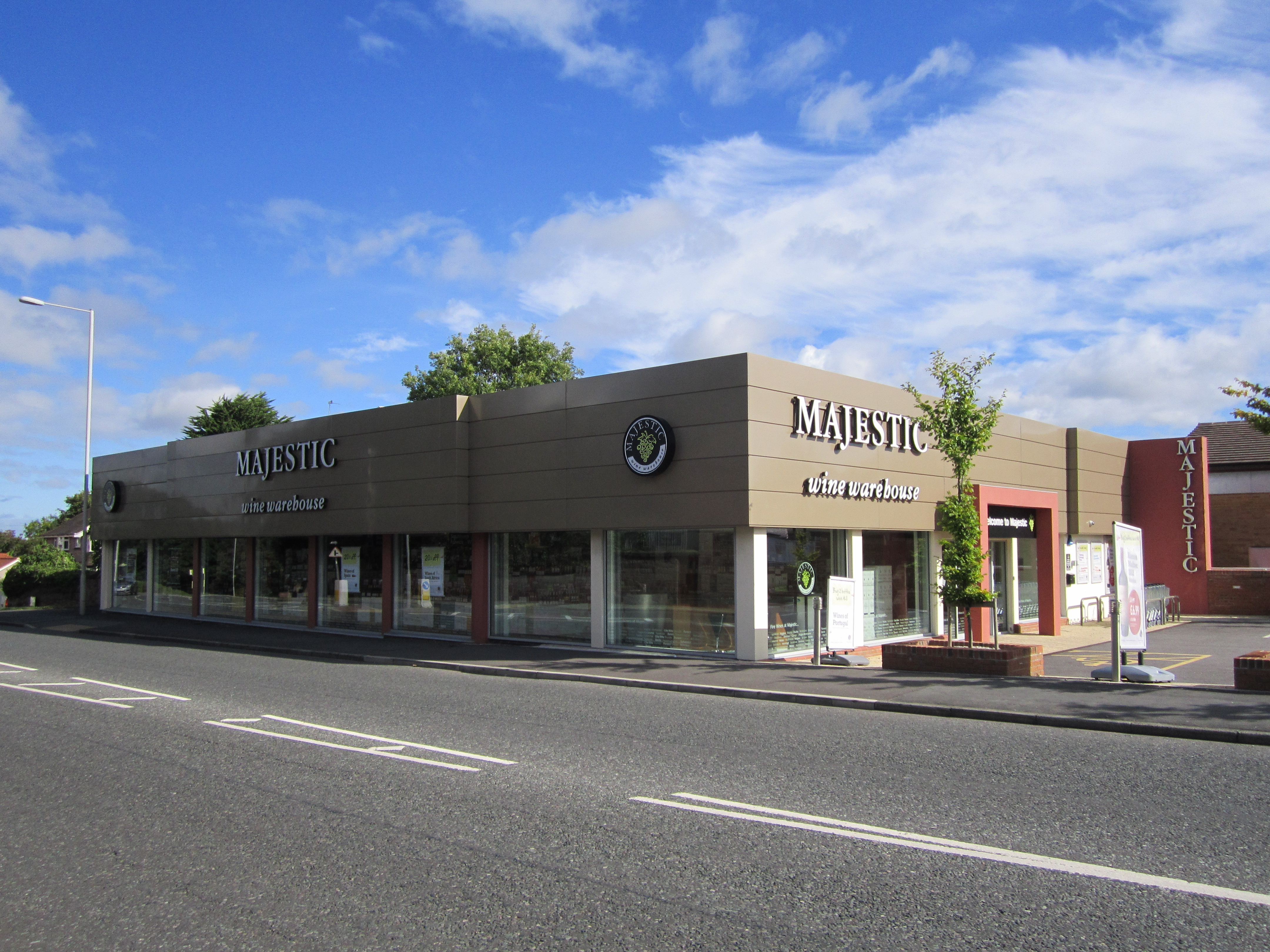 Majestic Wine Warehouse, Column Road, West Kirby, Wirral, England. On the site of a former car showroom.